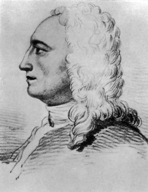 (PD by age)